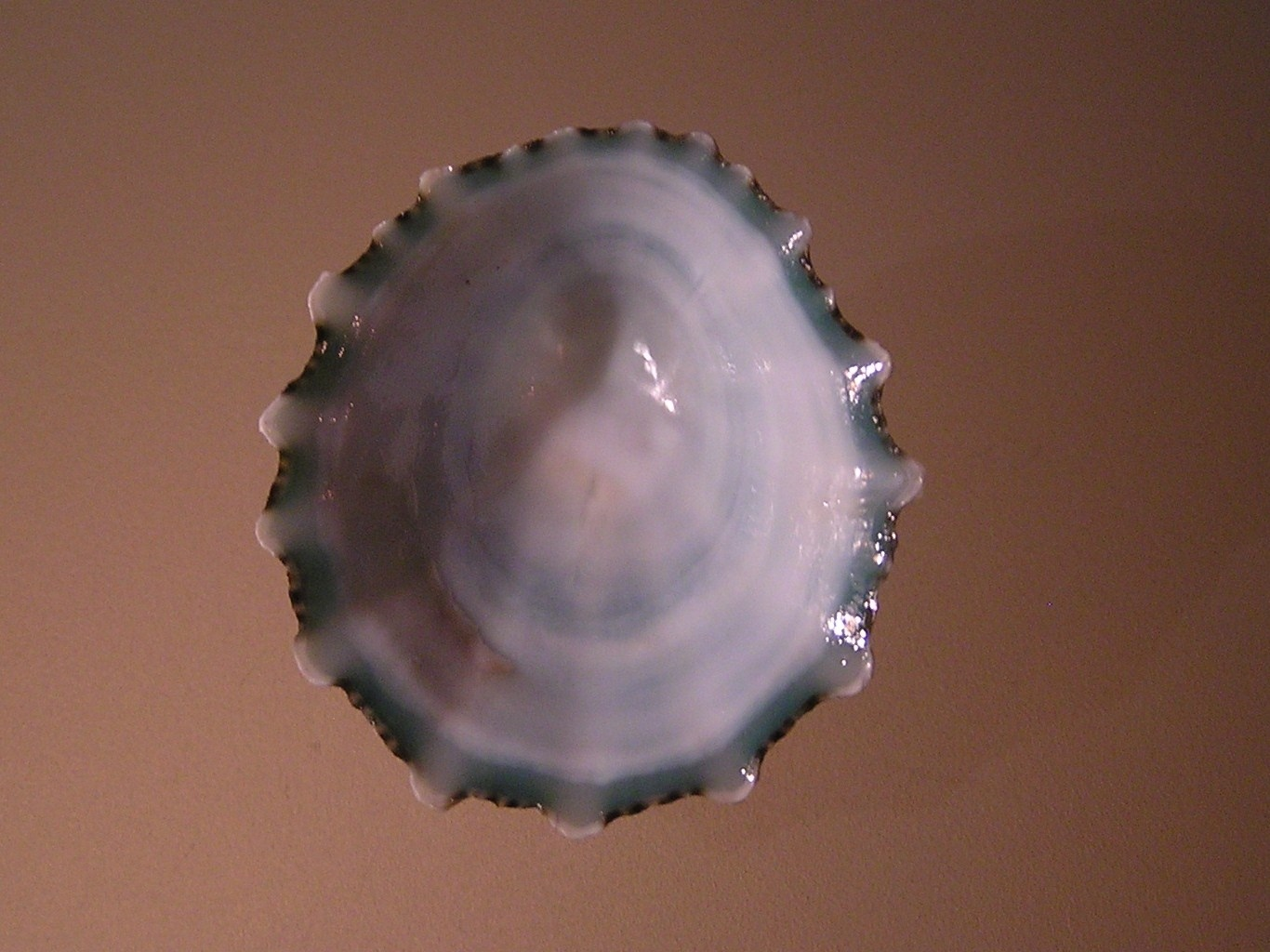 Scurria ceciliana ceciliana (d'Orbigny, 1841); a limpet in the family Lottiidae; Chile